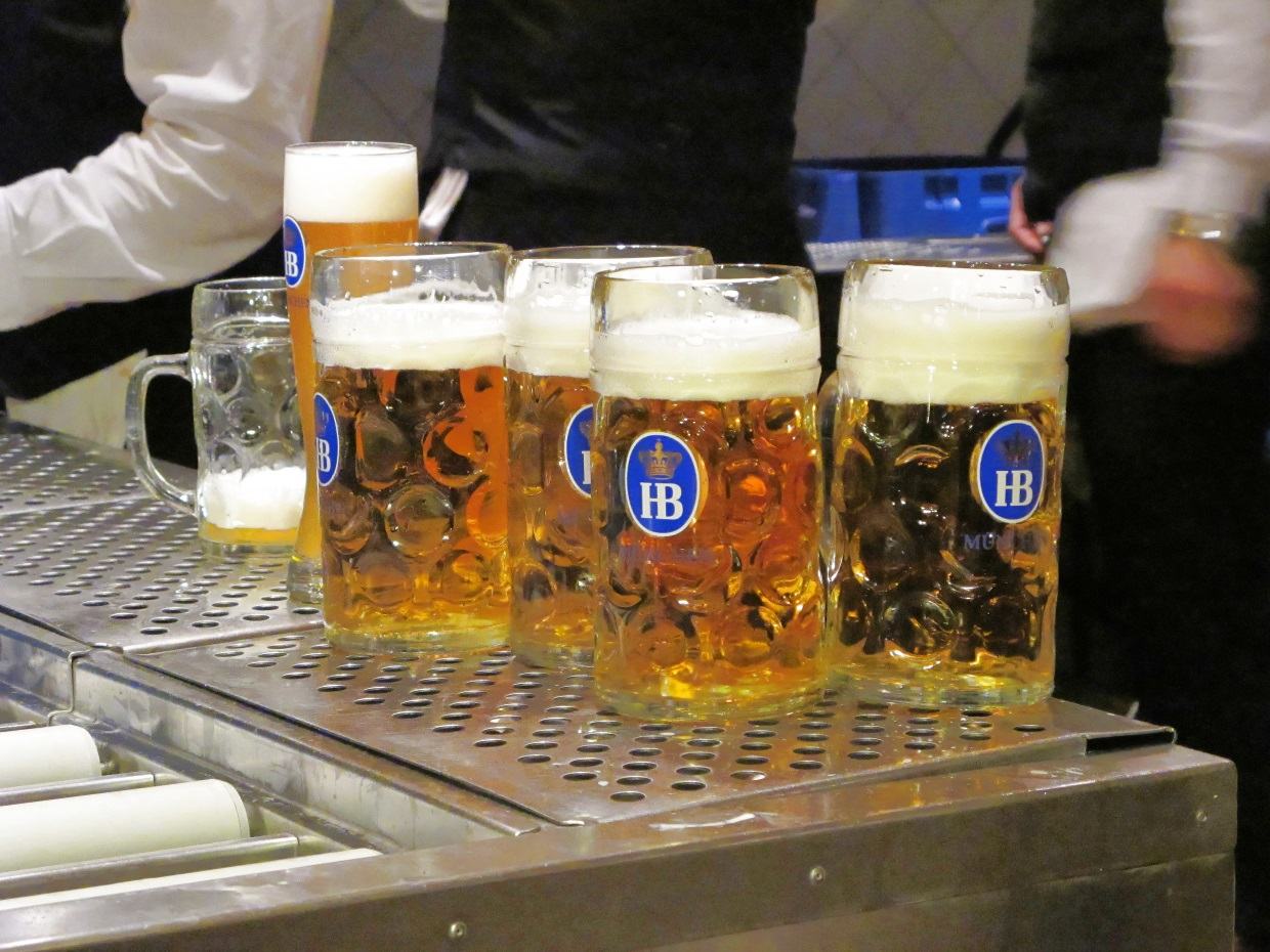 Munich, suburb "Old City", Hofbräuhaus: Beer Stein